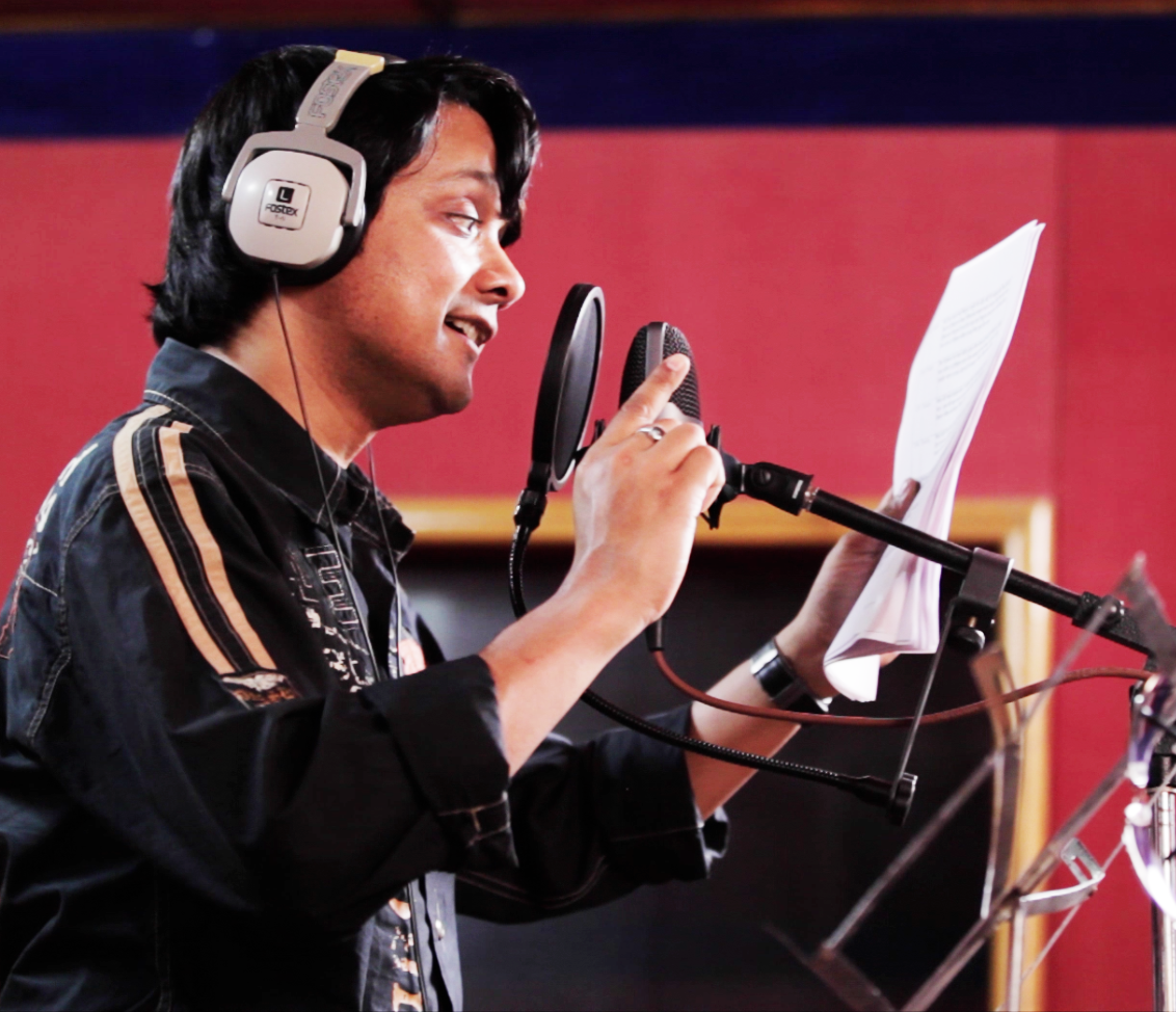 Actor Kopil Bora records his voice for the Axomiya language version of the TeachAIDS animation at Auditek Digital Recording Studio in Guwahati, Assam. Photo credit: TeachAIDS